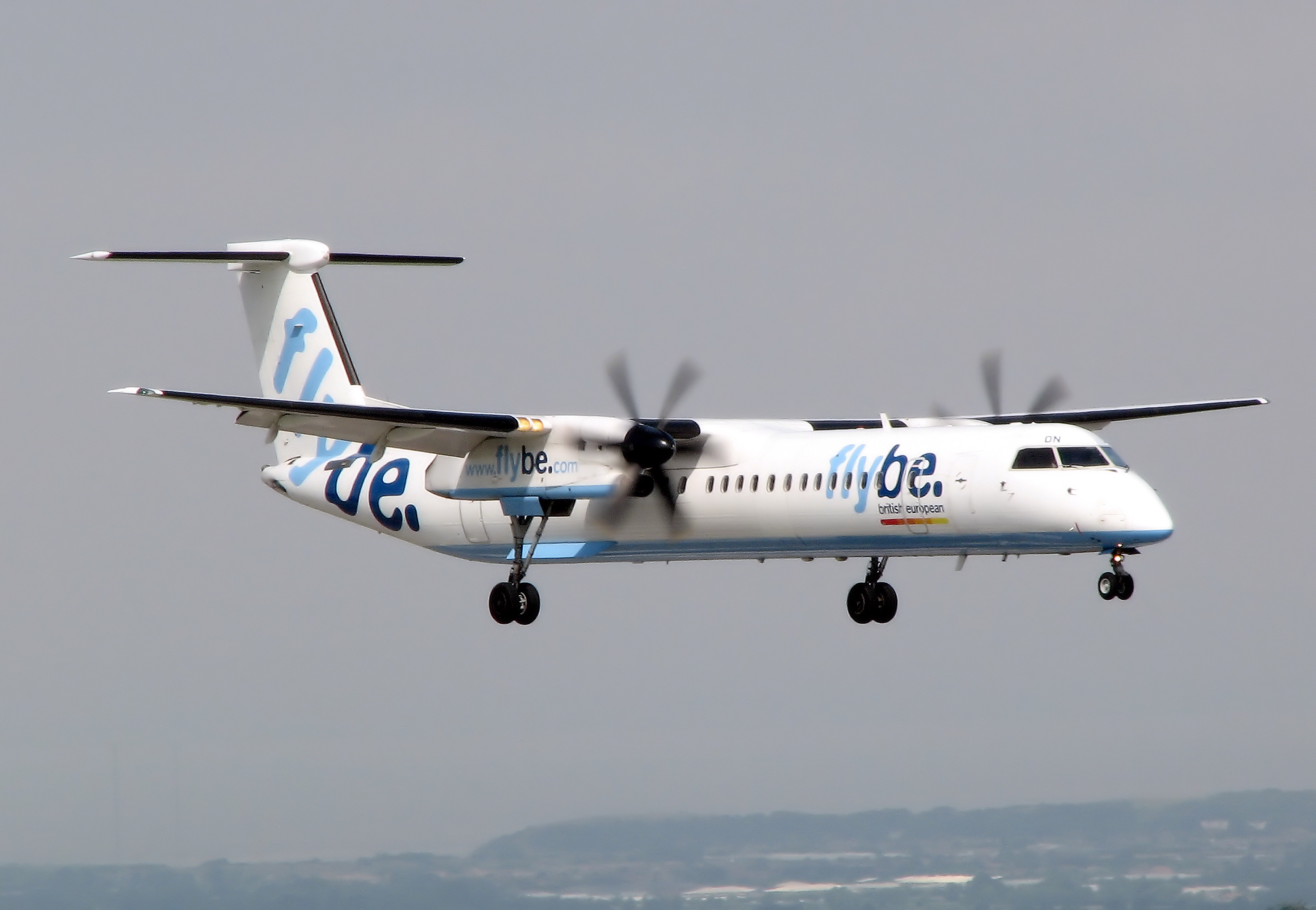 Flybe De Havilland Canada DHC-8 (G-JEDN) lands at Bristol International Airport, England.